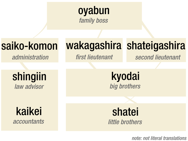 Recreation of: Showing the Yakuza hierarchy